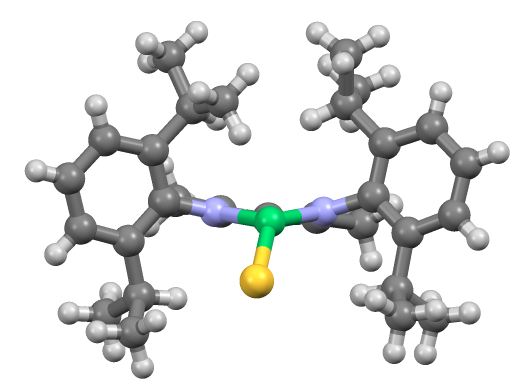 structure of (C6H3(iPr)2)2NacNac]NiSCPh3 viewed down "C2 axis", illustrating the steric bulk of some NacNac ligands (CPh3 removed for clarity) from DOI 10.1002/chem.201203642.